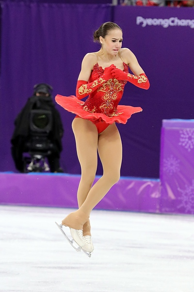 Alina Zagitova at the 2018 Winter Olympic Games - Free program